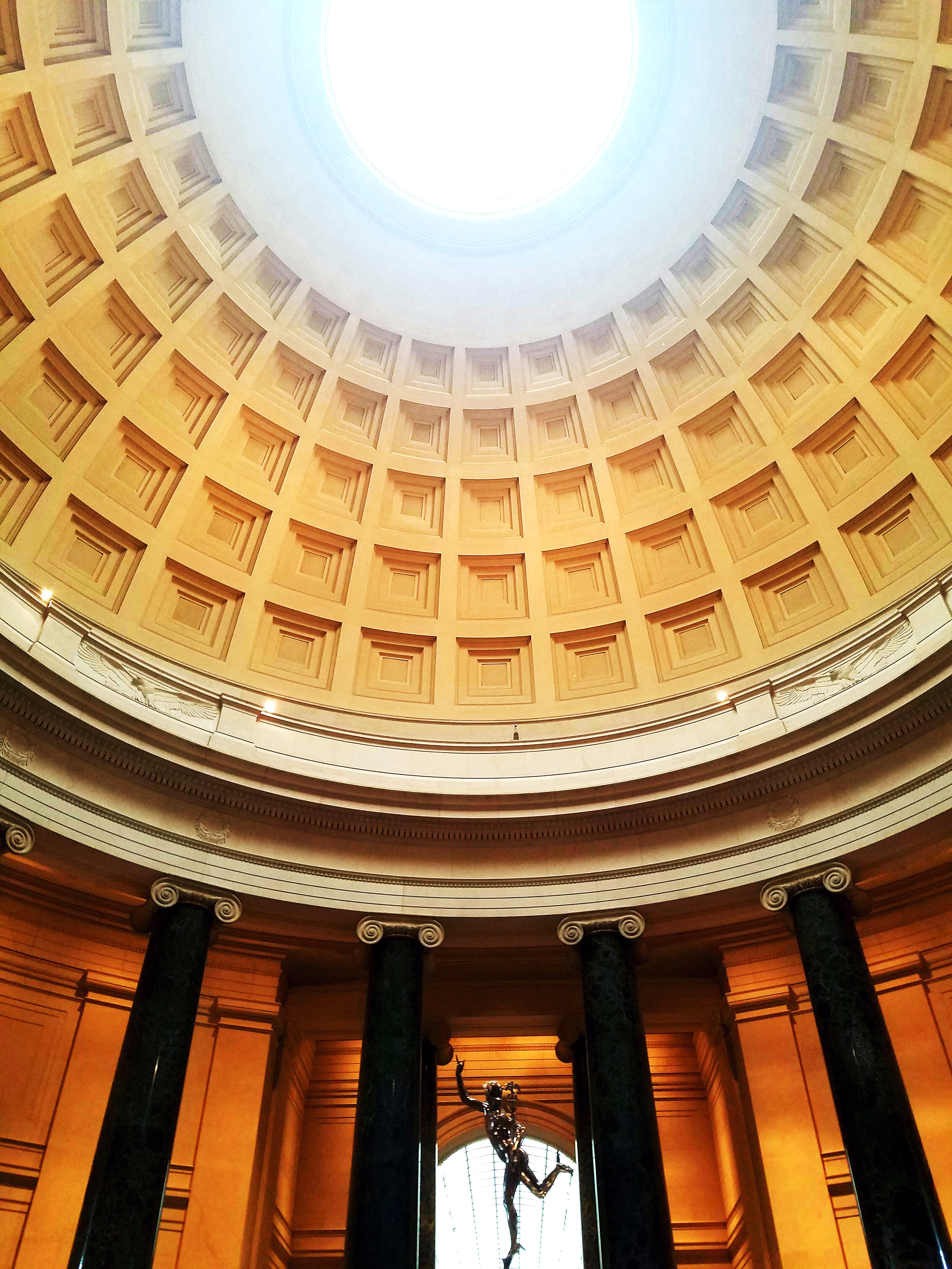 The entrance to permanent renaissance art collections, also a hub connecting different galleries in East Building